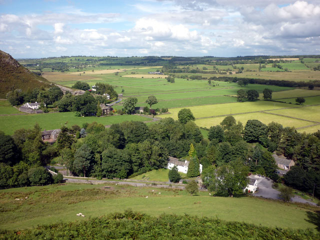 Mungrisdale from above, near to Mungrisdale, Cumbria, Great Britain. Viewed from the access land on Souther Fell directly above the Mill Inn. Beyond the village are the flat fields and marshes of White Moss - this is definitely the edge of Lakeland.